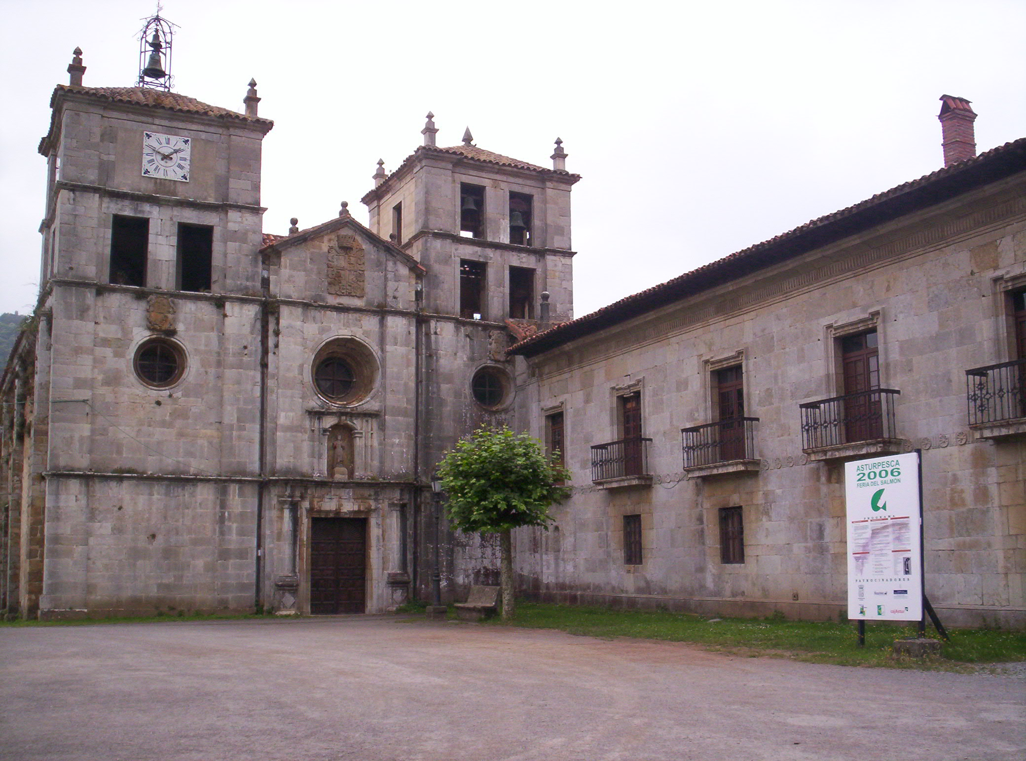 Monastery of Cornellana y Asturias